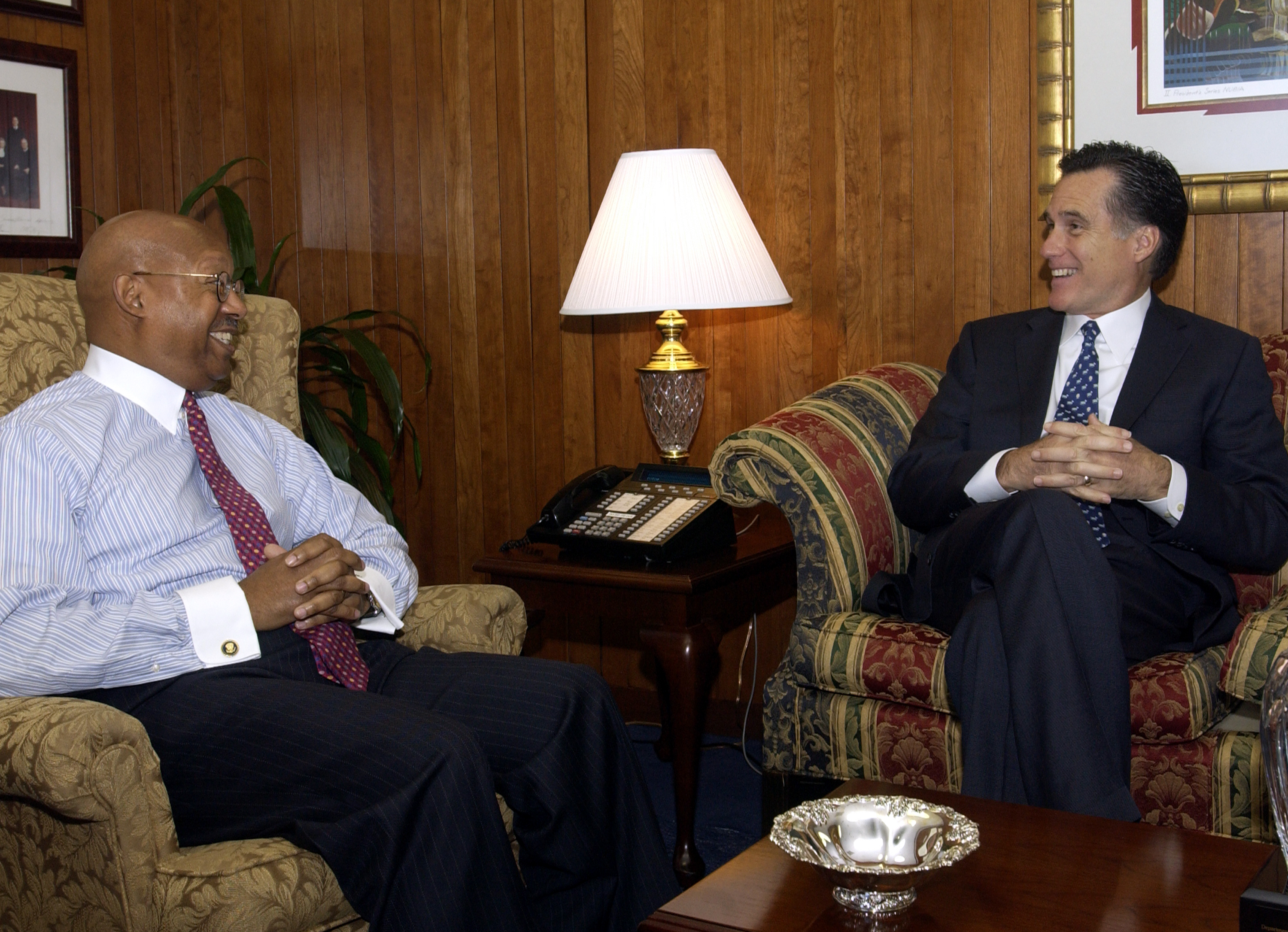 Secretary Alphonso Jackson receiving visit at HUD Headquarters from Massachusetts Governor Mitt Romney, son of former HUD Secretary George Romney.